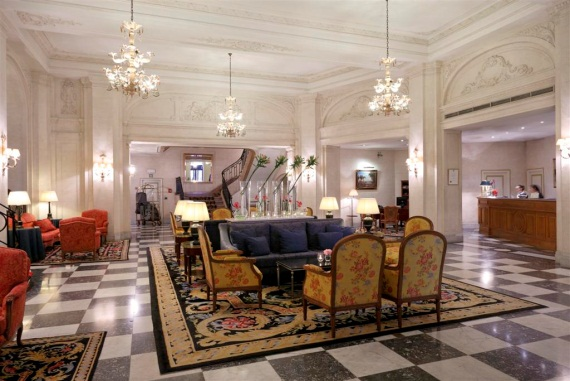 Lobby